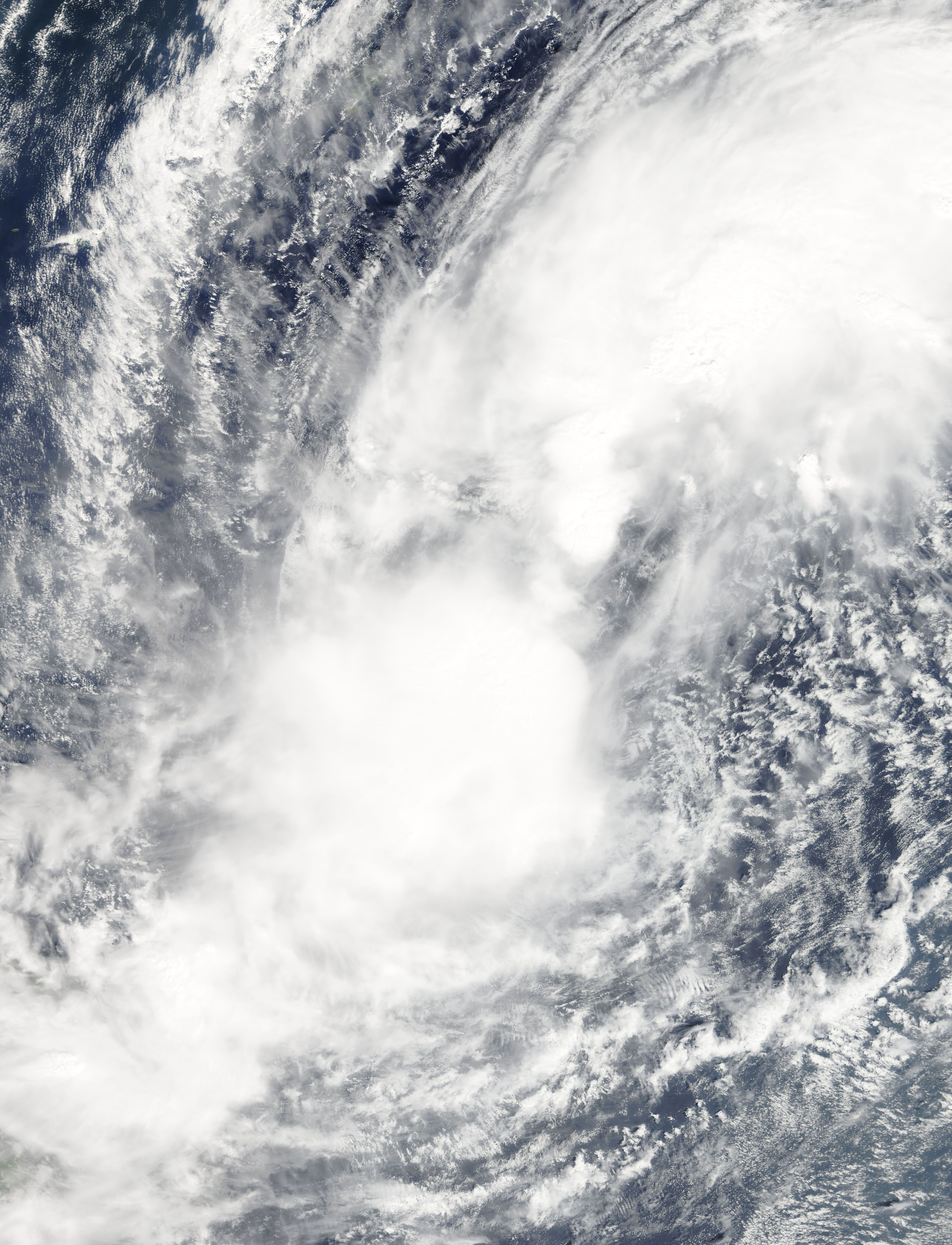 TS 0615 BEBINCA MODIS (Terra) image from 02Z on 2006-10-04.